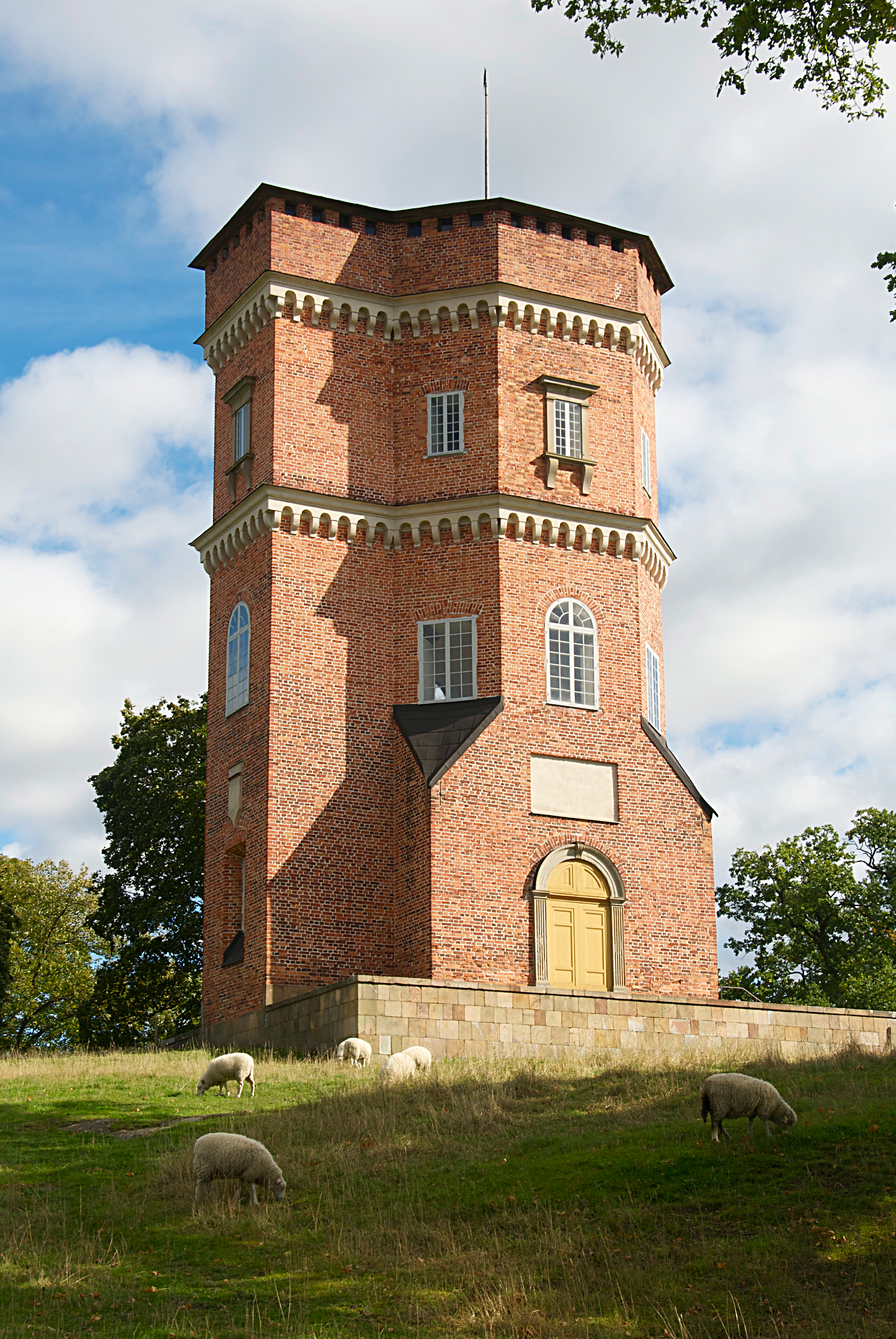 Götiska tornet (The Gothic Tower), Drottningholm.